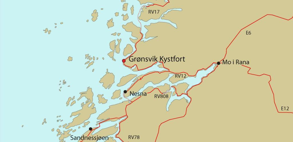 Direction to Grønsvik kystfort